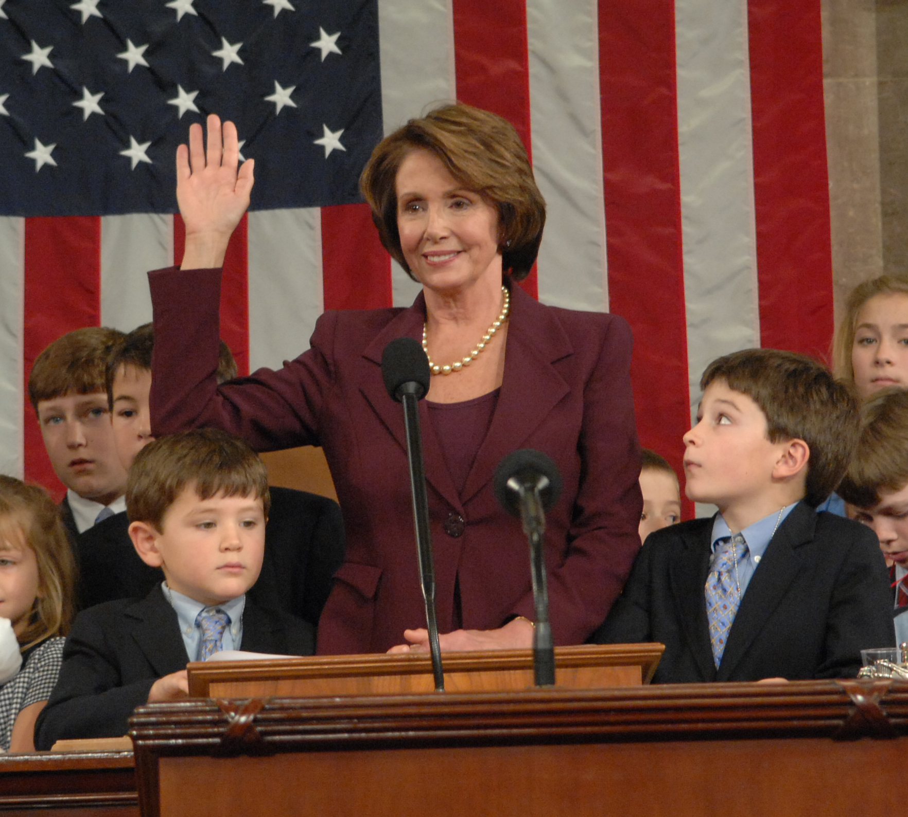 Congresswoman Pelosi being sworn in as Speaker of the U.S. House of Representatives on January 4, 2007